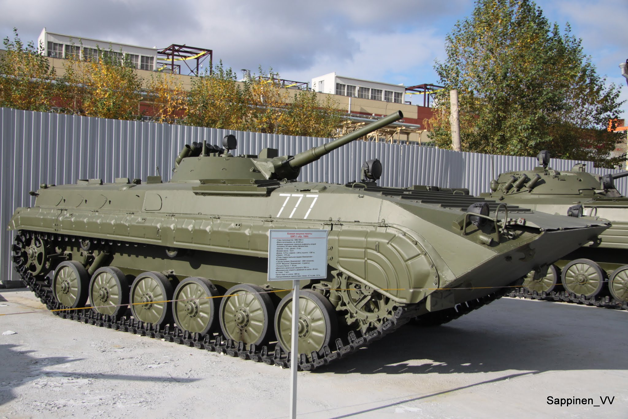 Verkhnyaya Pyshma Tank Museum 2012